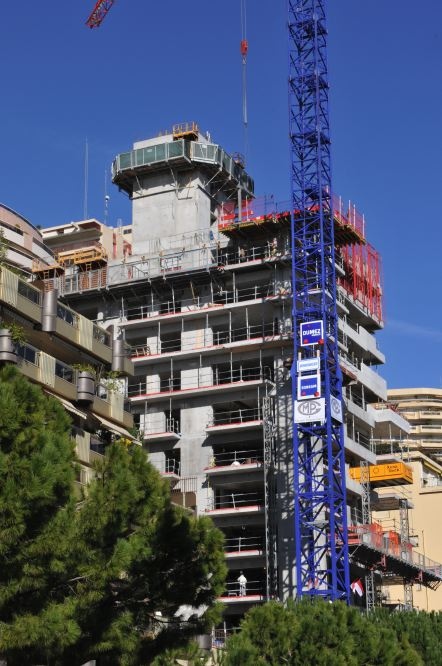 Chantier de la tour Teotista en janvier 2011